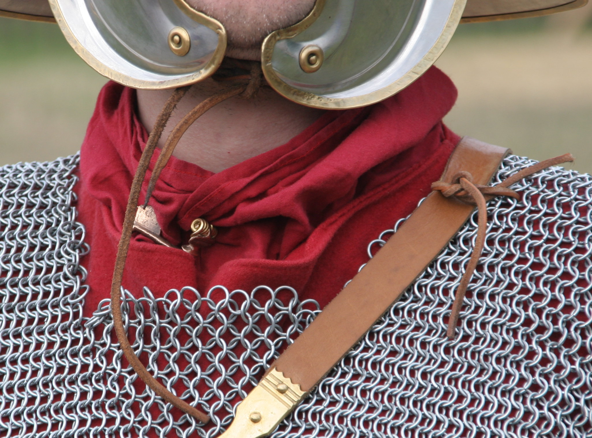 Focale (Halstuch) Photographed by myself during a show of Legio XV from Pram, Austria